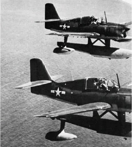 Two Edo Aircraft Corporation XOSE-1, ca. 1947.